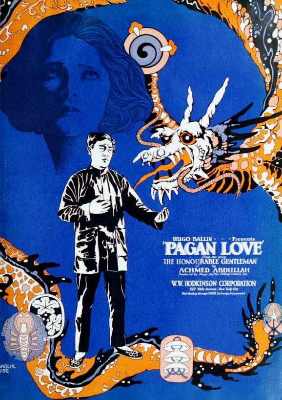 Advertisement for the American drama film Pagan Love (1920) with Mabel Ballin and Tôgô Yamamoto, from the insert after page 6 of the January 1, 1921 Exhibitors Herald.